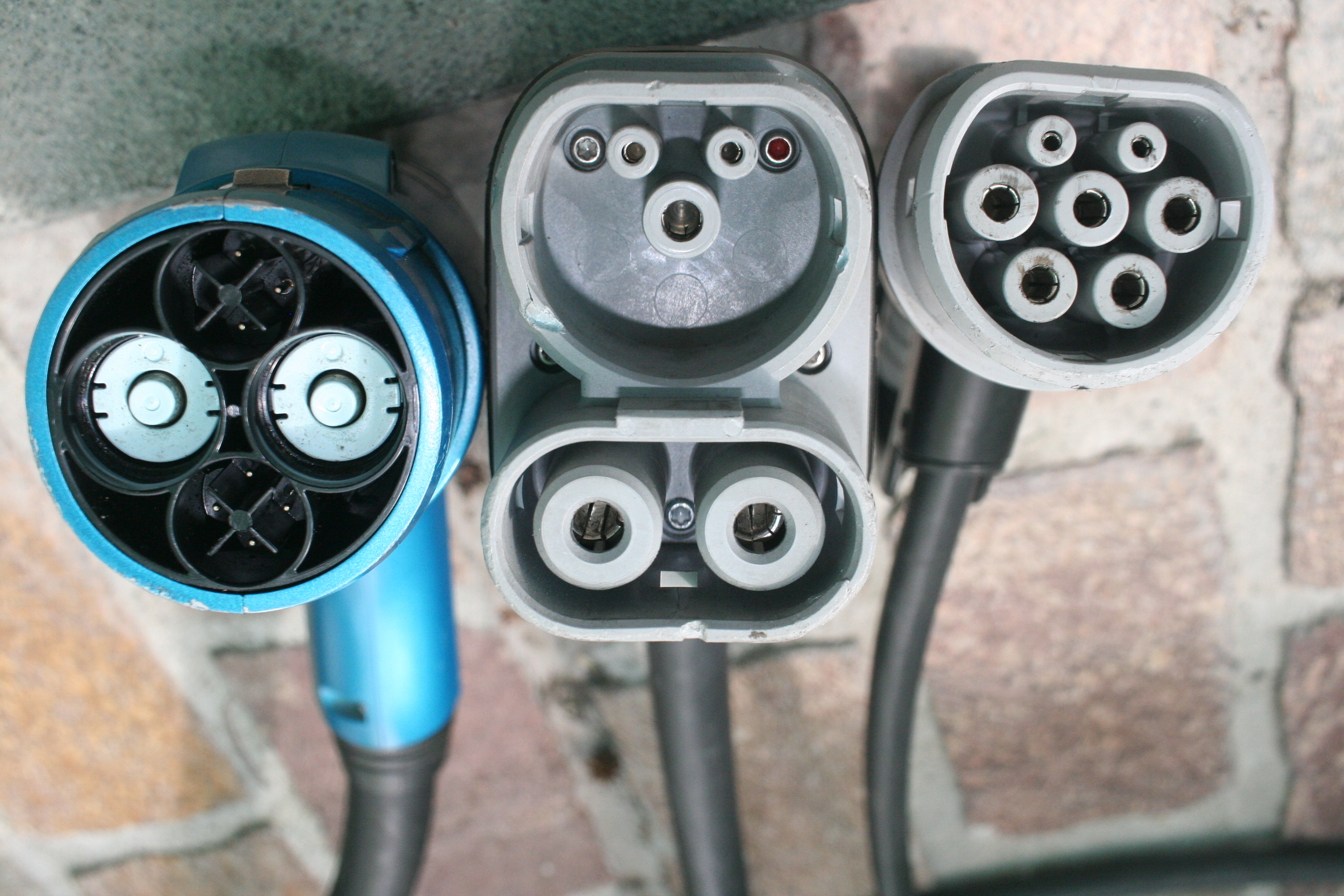 Side-by-side comparison of CHAdeMO charging connector (left), Combined Charging System Combo2 connector (centre), and normal Type 2 connector (right).